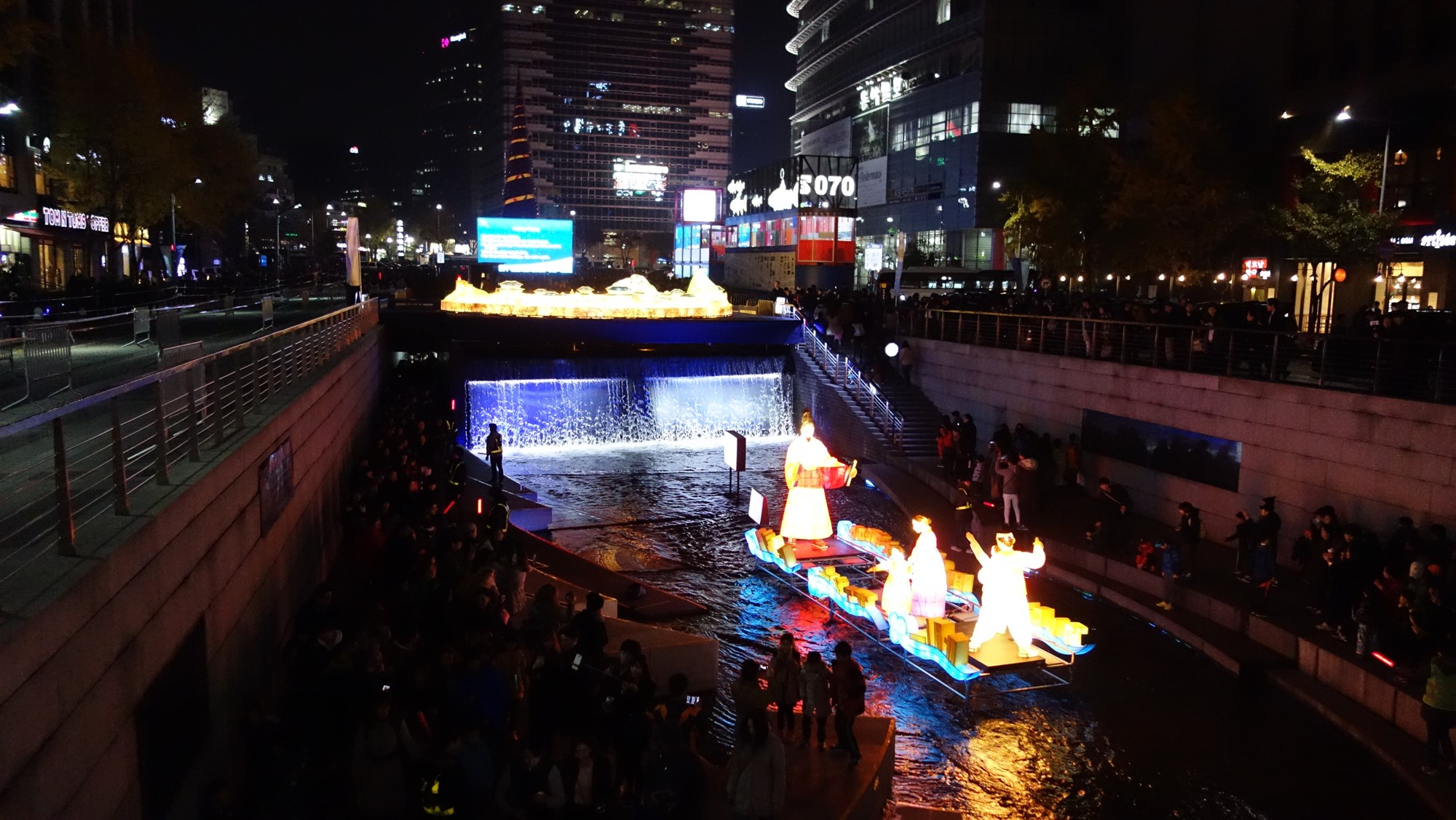 Lantern Festival boaters at Cheonggyecheon Stream, Seoul, Korea